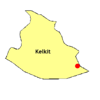 The location of Çamur in Kelkit.